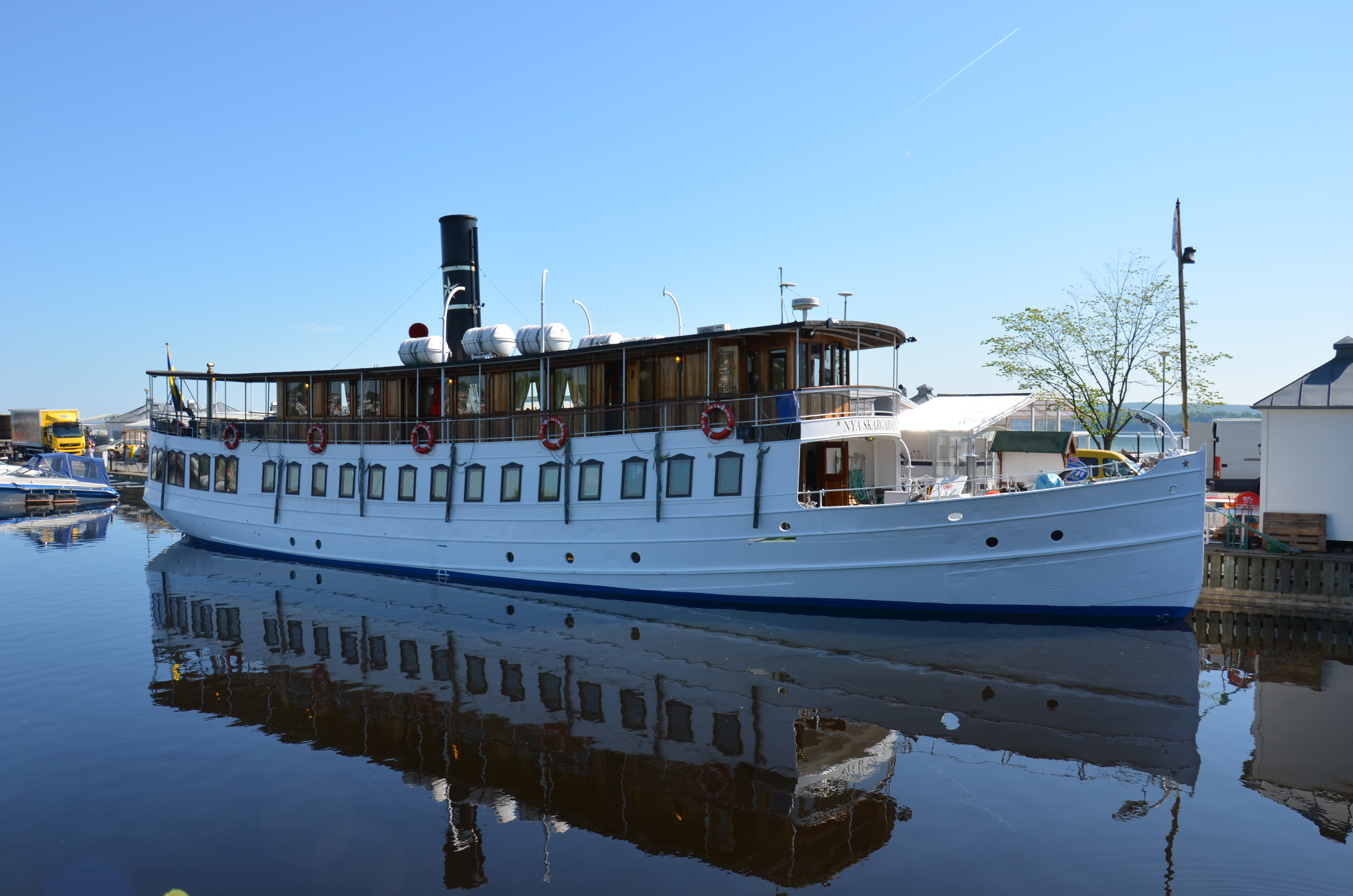 M/S Nya Skärgården, Jönköping